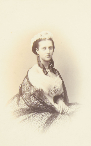 Princess Alexandra of Denmark in 1860